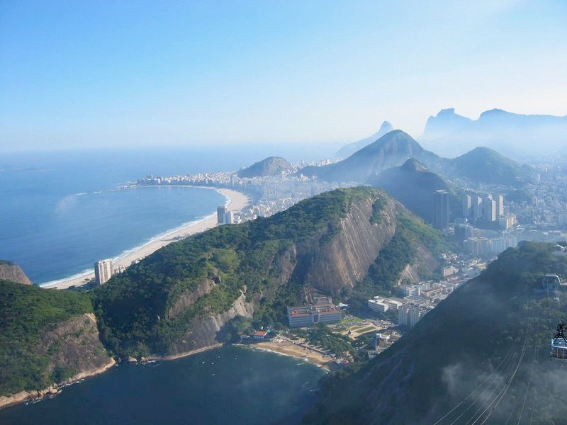 View from Sugar Loaf in Rio de Janeiro (facing Copacabana, Ipanema)